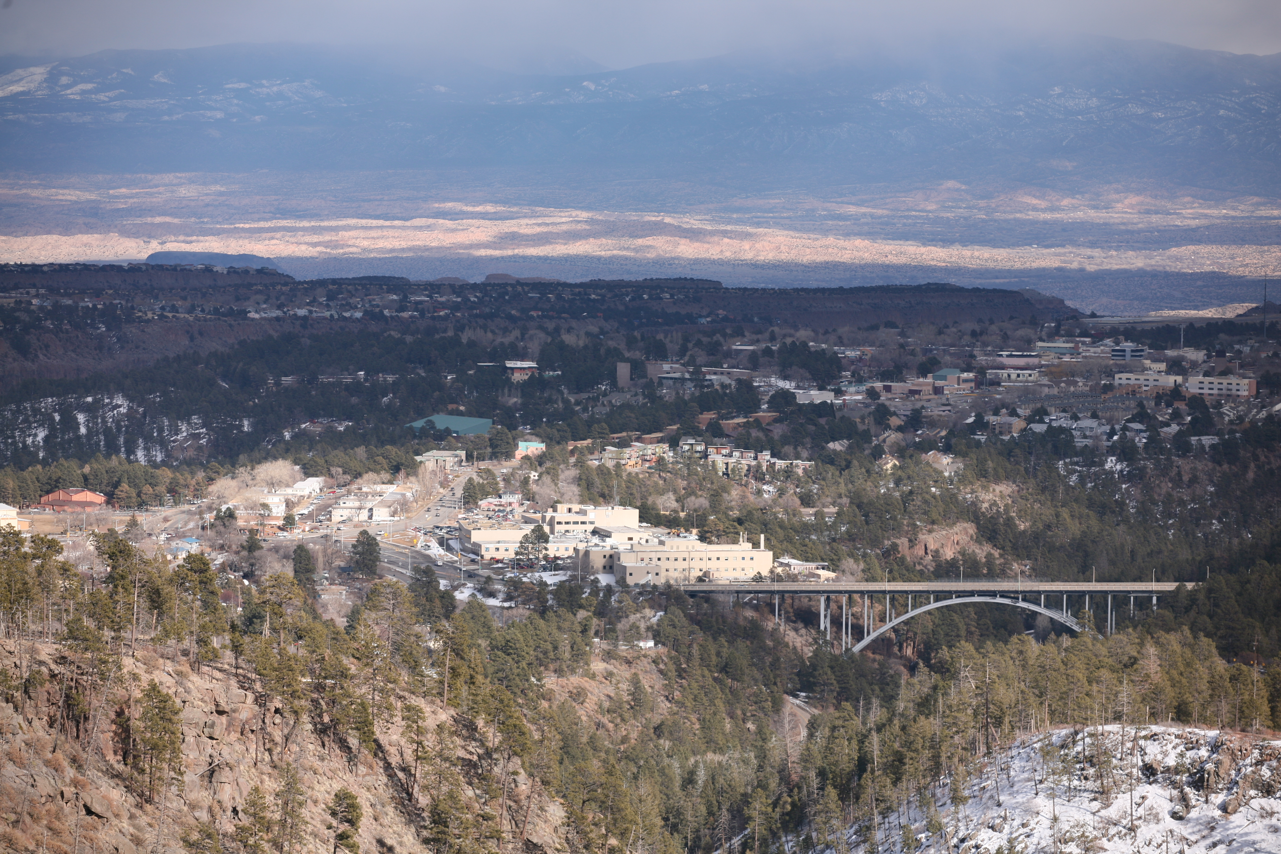 View over Los Alamos, New Mexico. The bridge in the lower right is Omega bridge across Los Alamos Canyon.